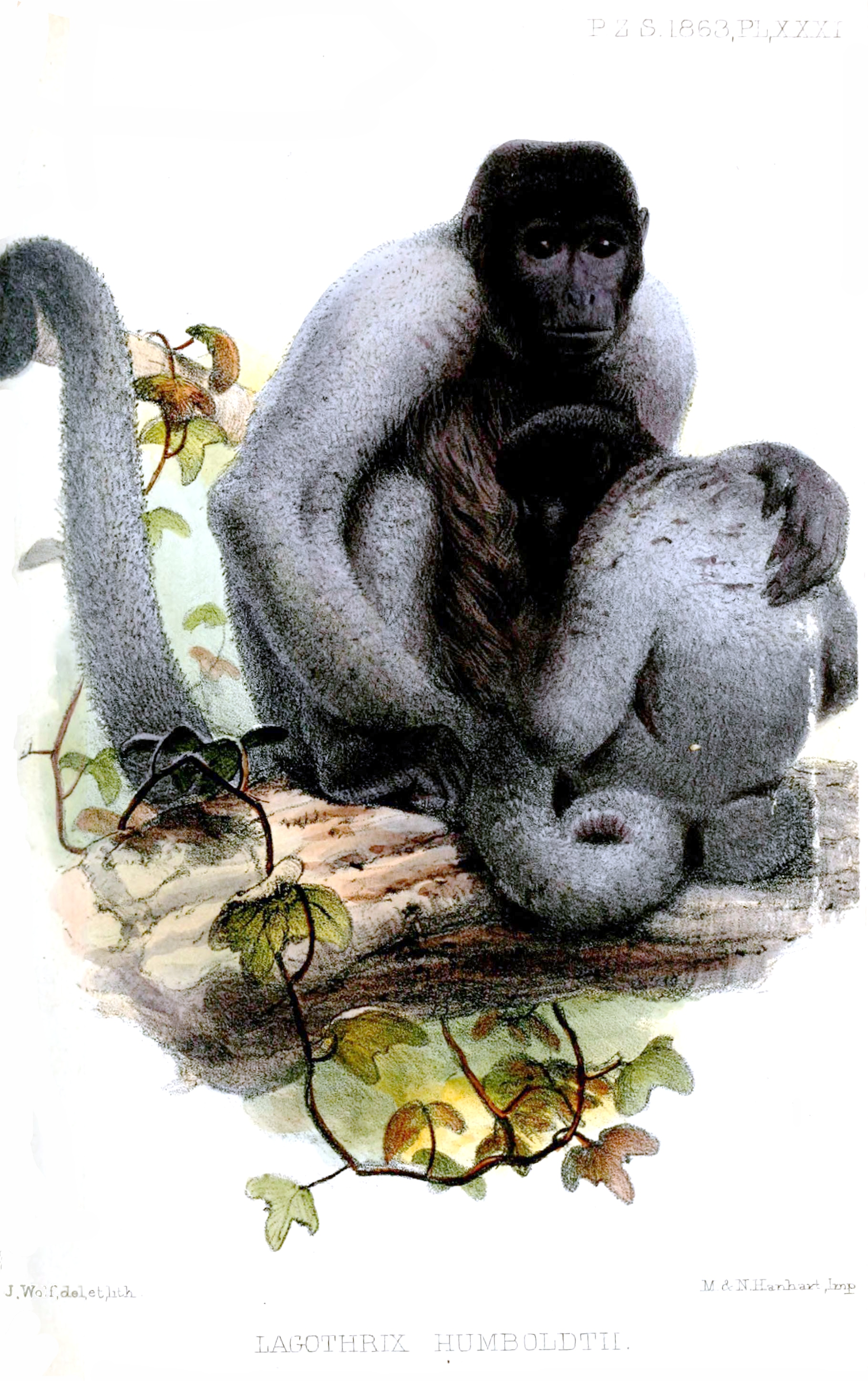 Lagothrix humboldtii = L. lagothrica